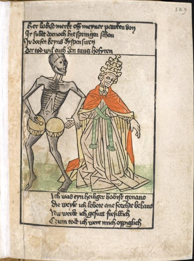 Totentanz (Danse Macabre) in blockbook format: oldest surviving book illustrations of the genre.